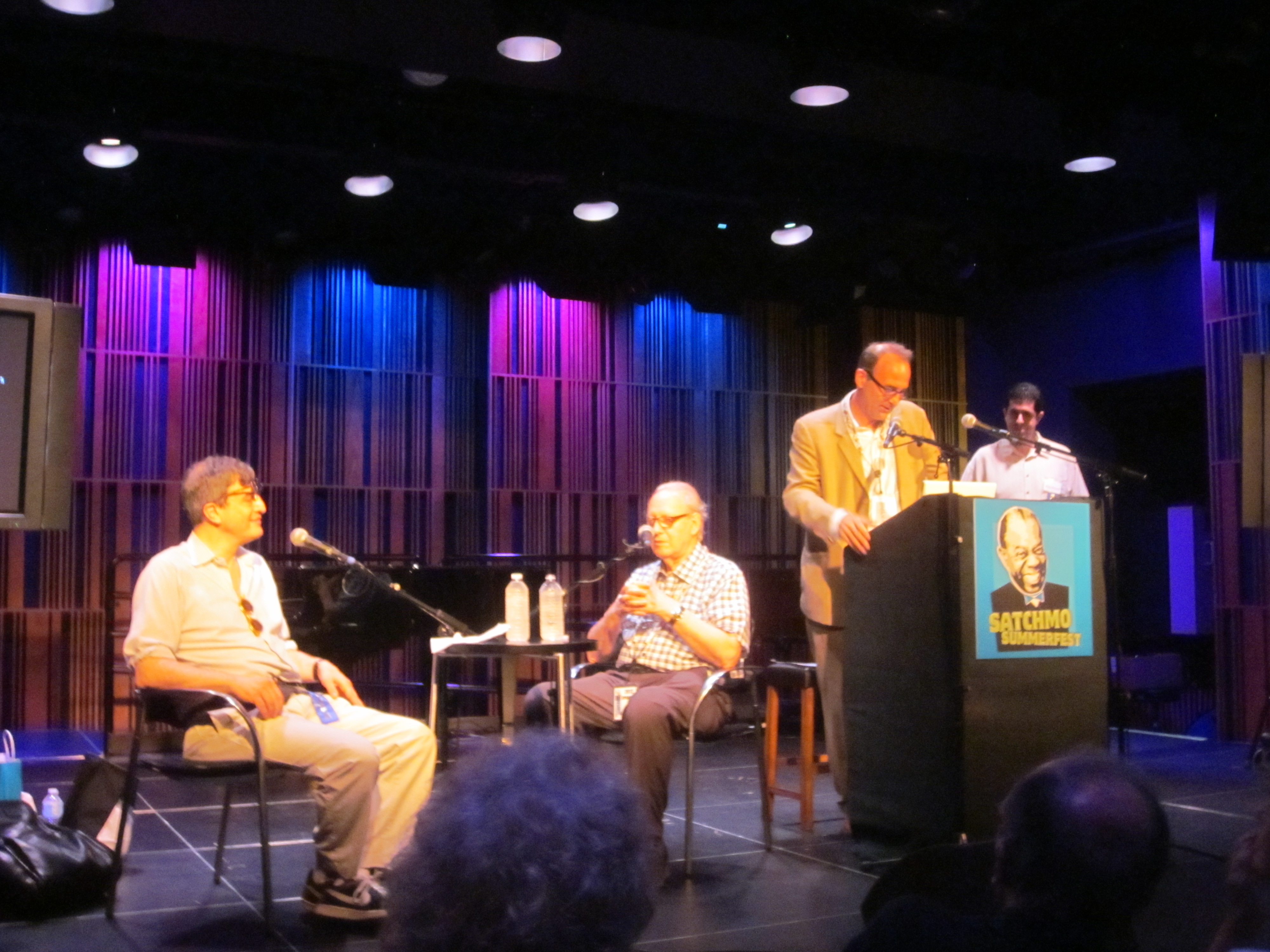 New Orleans: Satchmo SummerFest Seminar series at the Old Mint Building. David Ostwald (left) interviewing Dan Morgenstern. Jon Pult at podium; to right Ricky Riccardi.